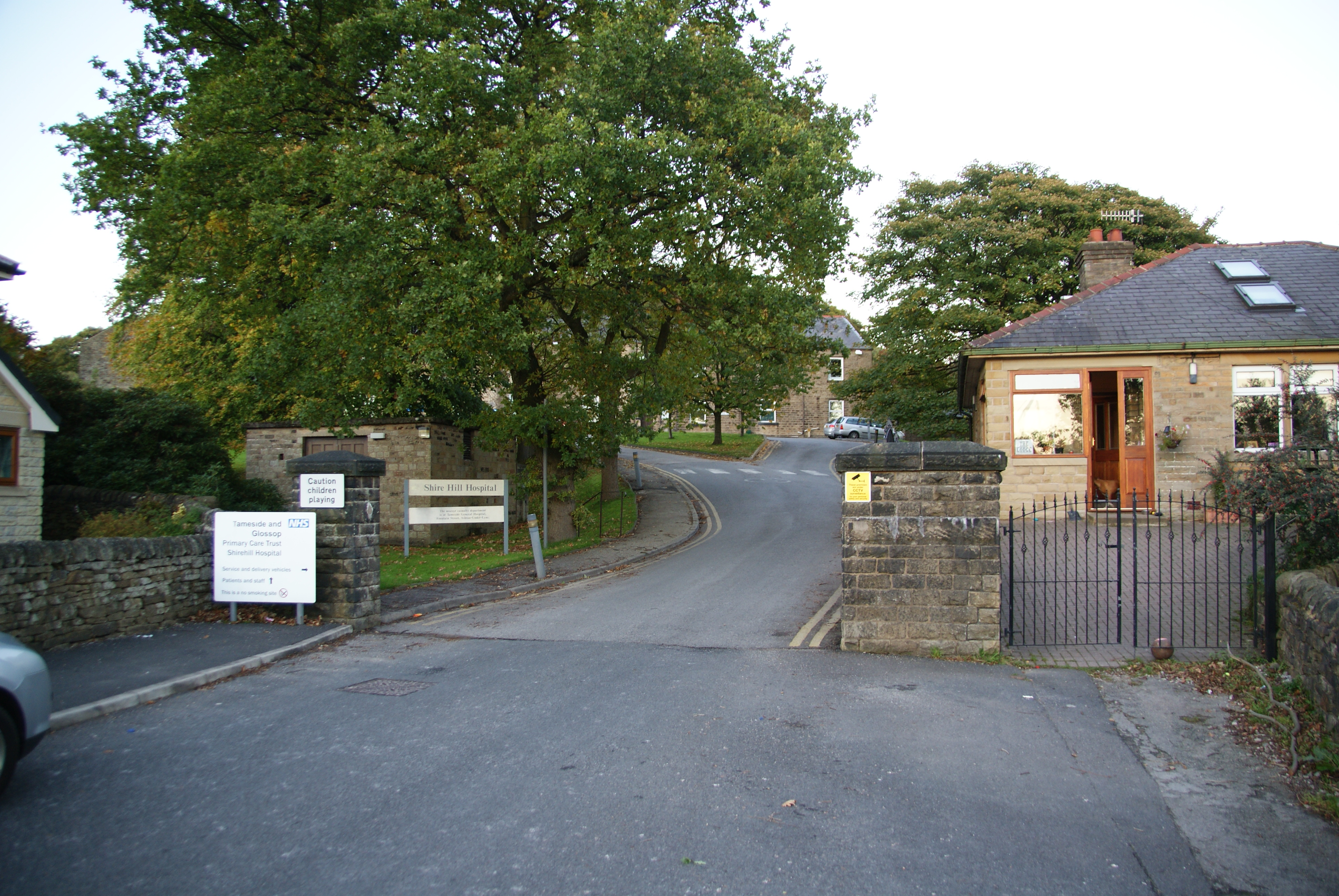 The entrance to Shire Hill Hospital